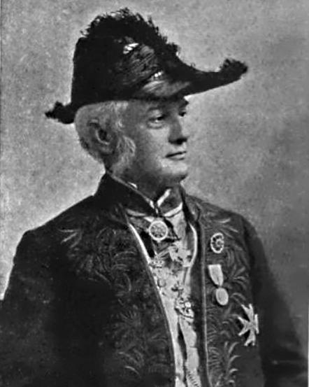 Portrait of Friedrich Max Müller circa 1898.